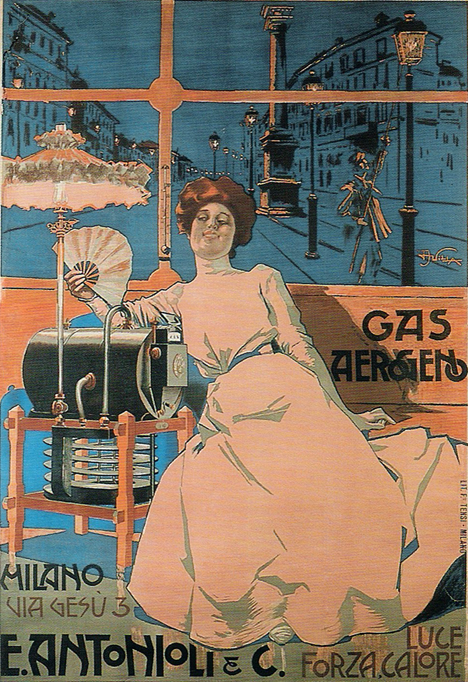 Advertising Poster: Antonioli's Gas, Milan, Italy (Light, Power, Warmth). Winter, at the evening: a women with fan sits close to a warm stove (boiler) and a bright lamp.